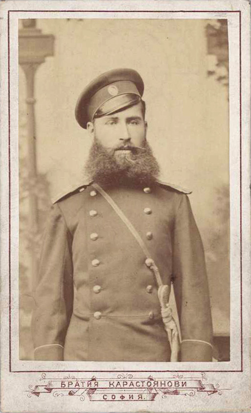 Georgi Stoyanov Todorov (1858-1934)